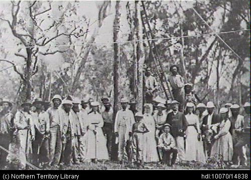 Planting the first telegraph pole, near Palmerston (Darwin) on 15 September 1870. Among those present were: Mr Palmer, Mr Burton, Dr Furnell, Dr James Millner, D.D. Daly, Miss Douglas, Mr & Mrs W.T. Dallwood, Willie Douglas, A.T. Childs, Captain & Mrs Douglas, F.W. Dallwood, Miss Douglas, W. McMinn, Miss B. Douglas, Mr James Darwent, J. McKinlay, Mr Grey, Mr E. Holthouse, Mr Davis, Mr Paquelin. Time: 3.00pm. Peter Spillett Collection - Northern Territory Library. Image number PH0238/0383.